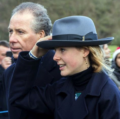 Lady Margarita with her father at Sandringham in 2017.